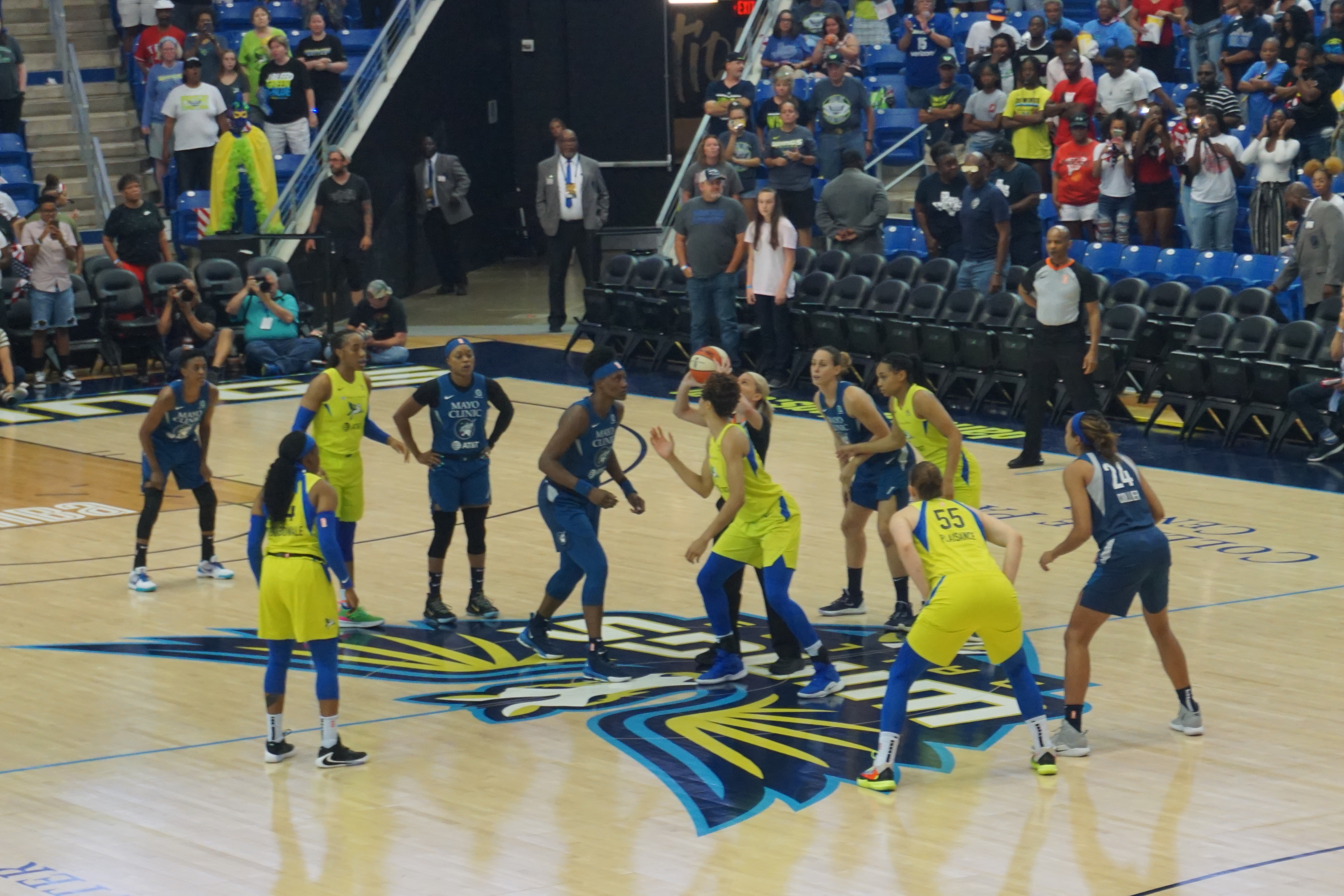 The opening tip of the Minnesota Lynx vs. Dallas Wings basketball game at College Park Center in Arlington, Texas (United States). Dallas won 89–86.